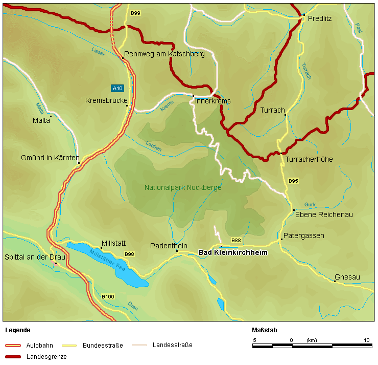 surroundings of Bad Kleinkirchheim, Carinthia, Austria Source